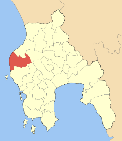 Locator map of Filiatron municipality (Δήμος Φιλιατρών) at Messinia perfecture, Greece.